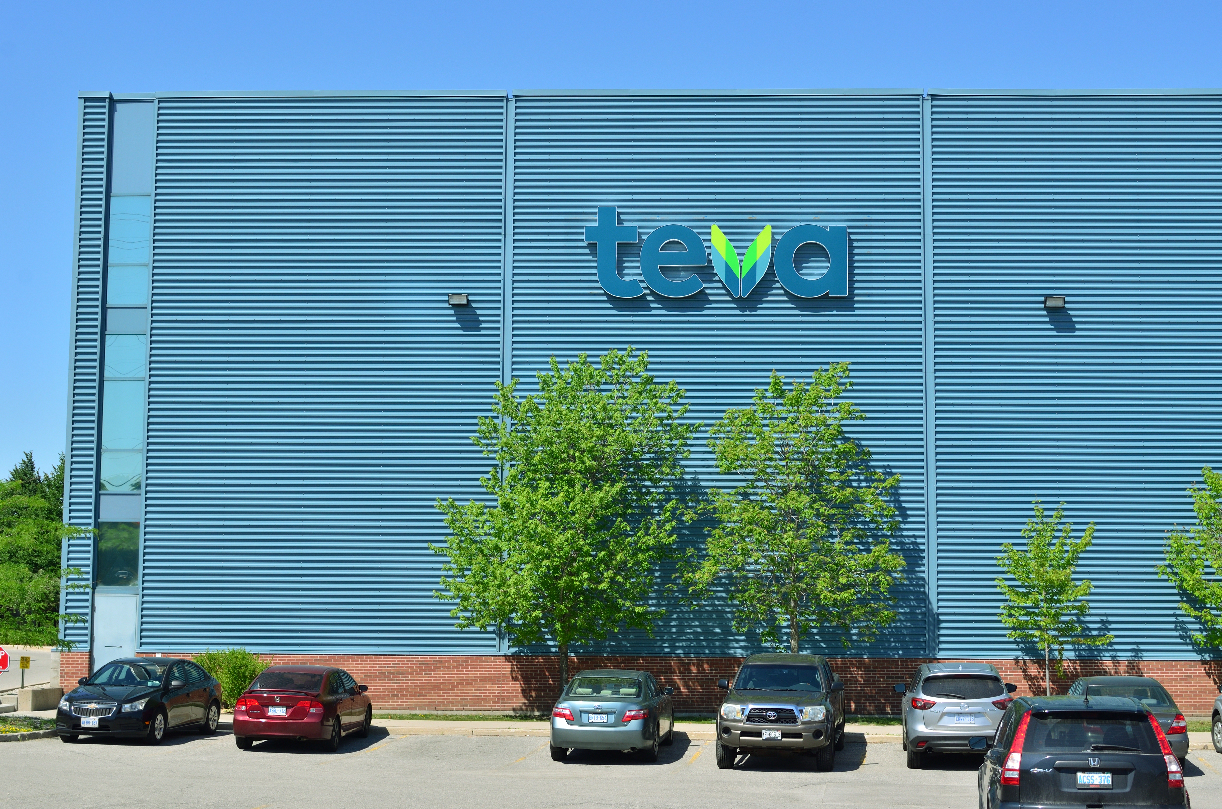 Teva Canada - Address: 575 Hood Road, markham, Ontario